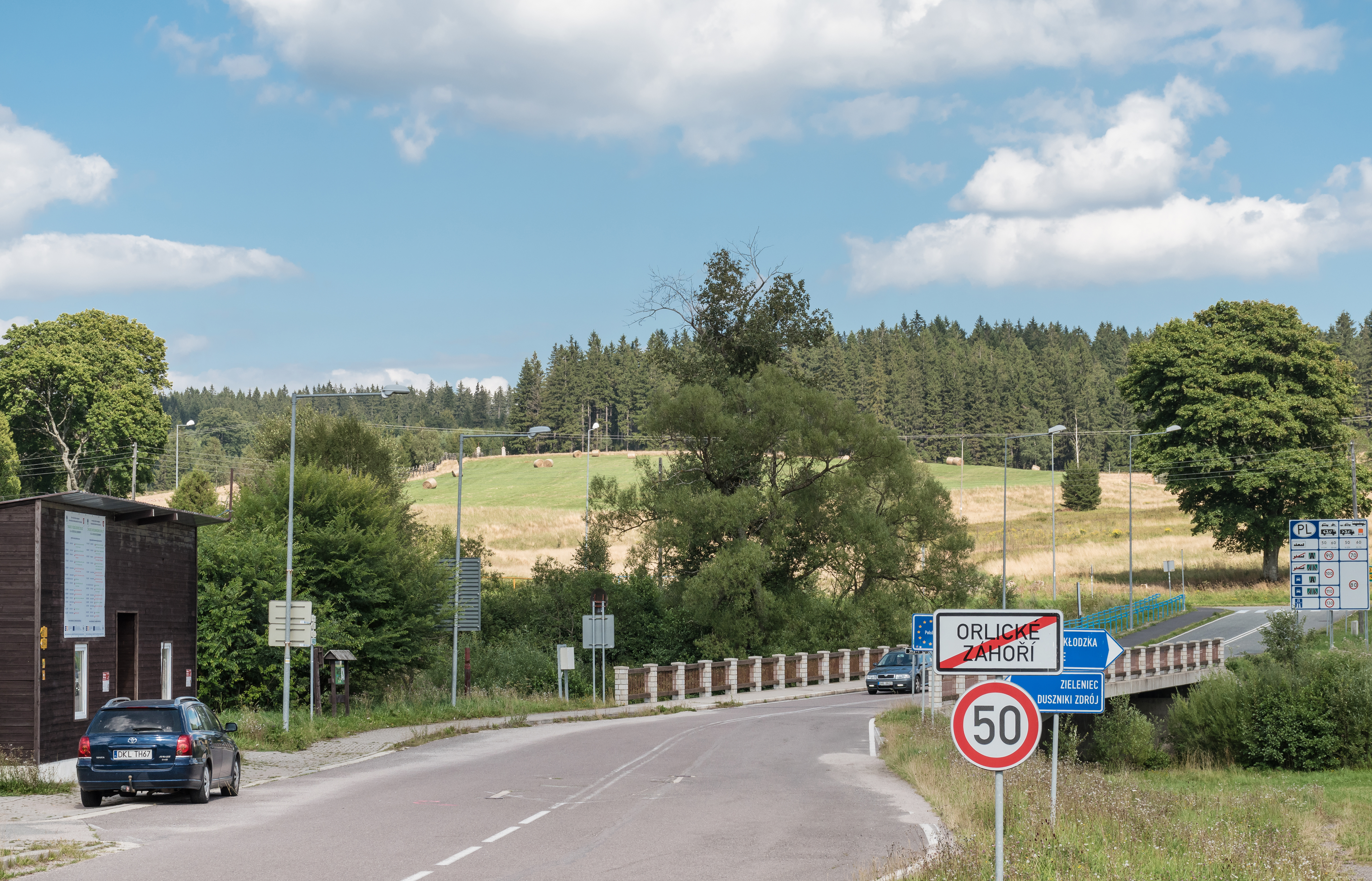 Border crossing between Mostowice, Poland and Orlické Záhoří, Czech Republic